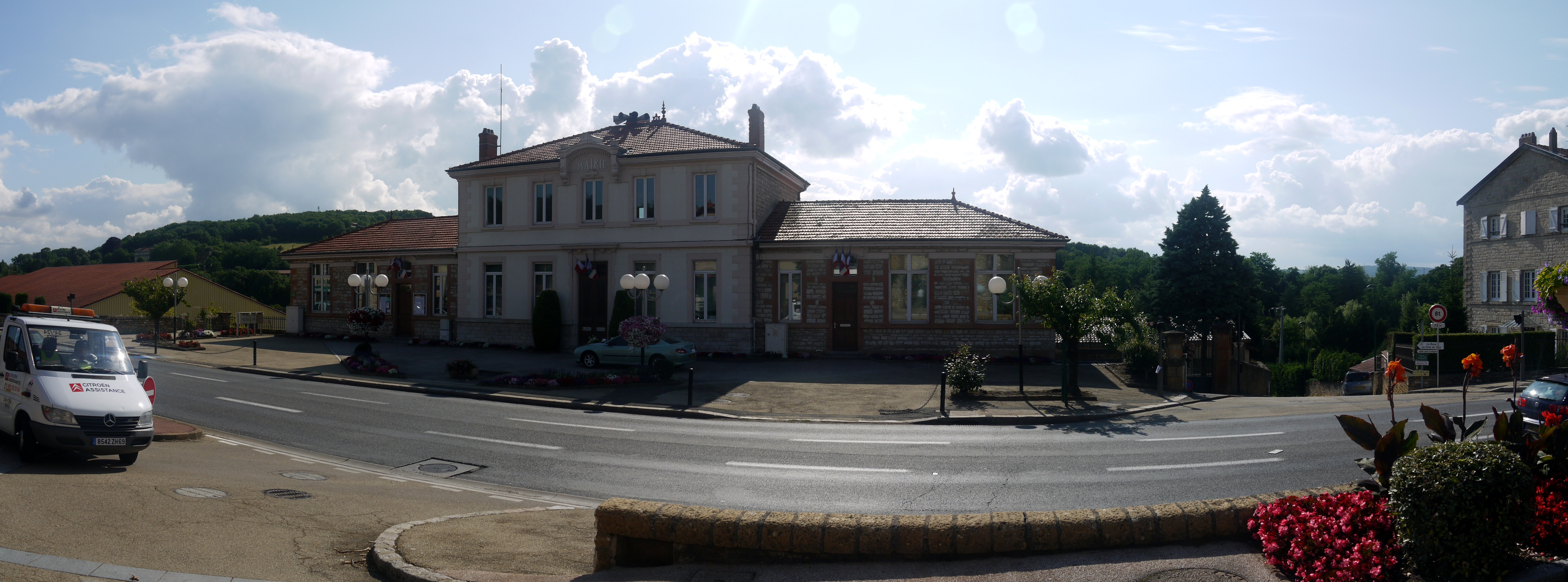 The Town Hall of Lissieu, in France.